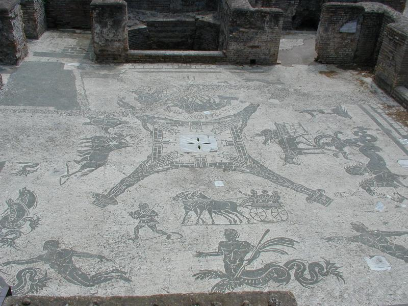 Mosaic with scenes of everyday life in Ostia: carts drawn by mules, marine figures. Frigidarium C, so-called Baths “dei Cisiarii”, Ostia Antica, Latium, Italy.